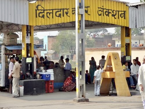 Mound of ruins with remains of temples and other buildings